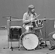 Theo Klouwer, drummer of the Cats